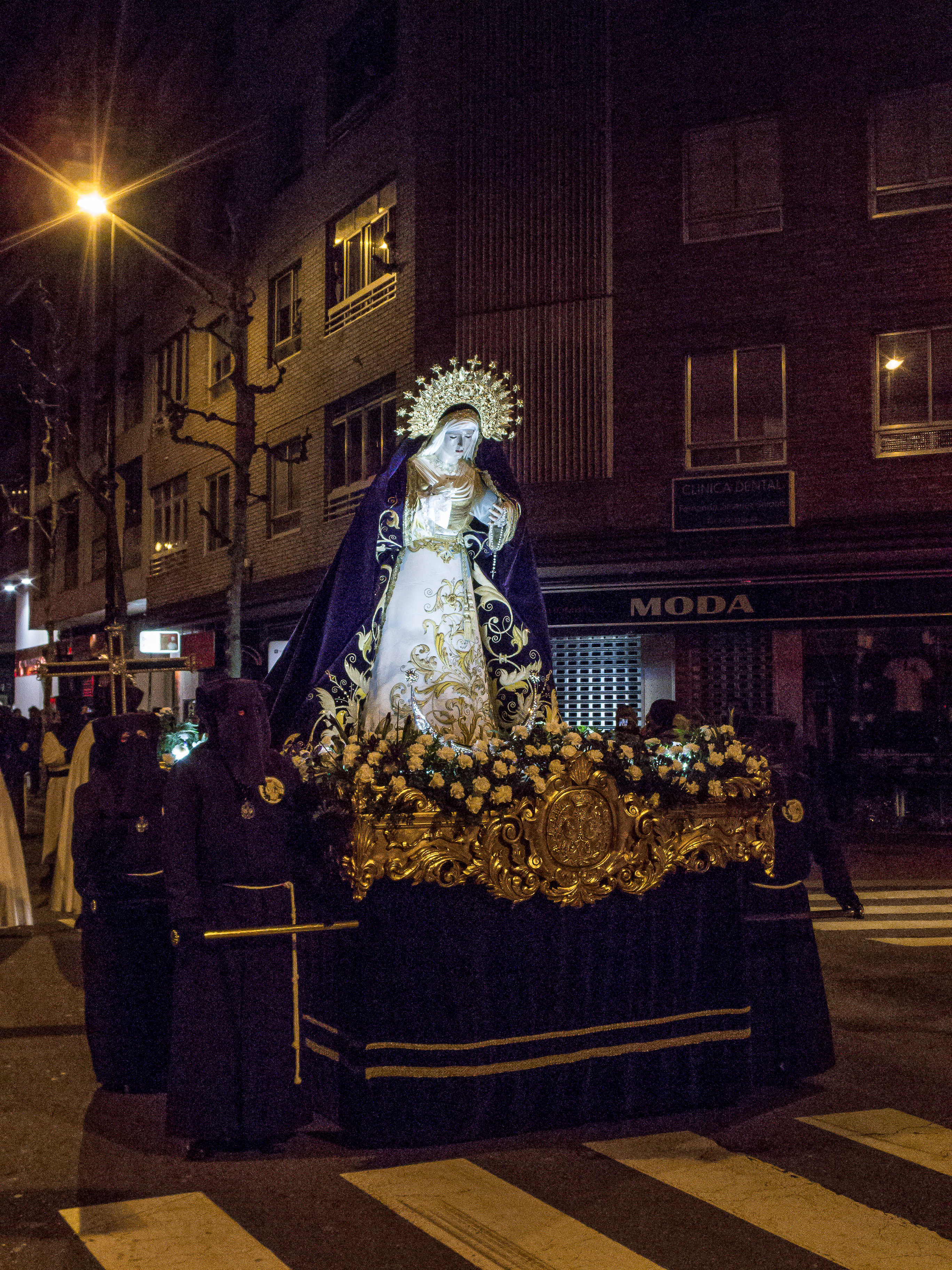 OLYMPUS DIGITAL CAMERA This is a photography of a Folklore festival in Spain (Wikidata id Q9075892).